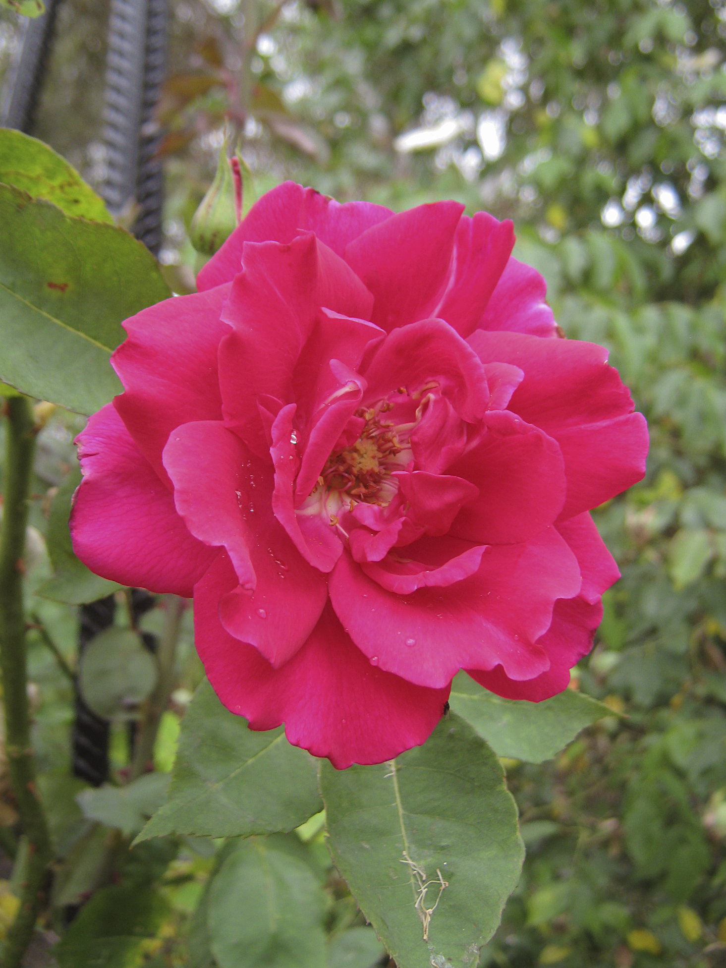 Rose 'Princeps', Hybrid Tea climber by Alister Clark 1942; photographed in the Alister Clark Memorial Rose Garden, Bulla, Victoria